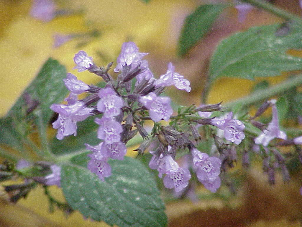 Species: Calamintha grandiflora Family: Labiatae Image No. 3